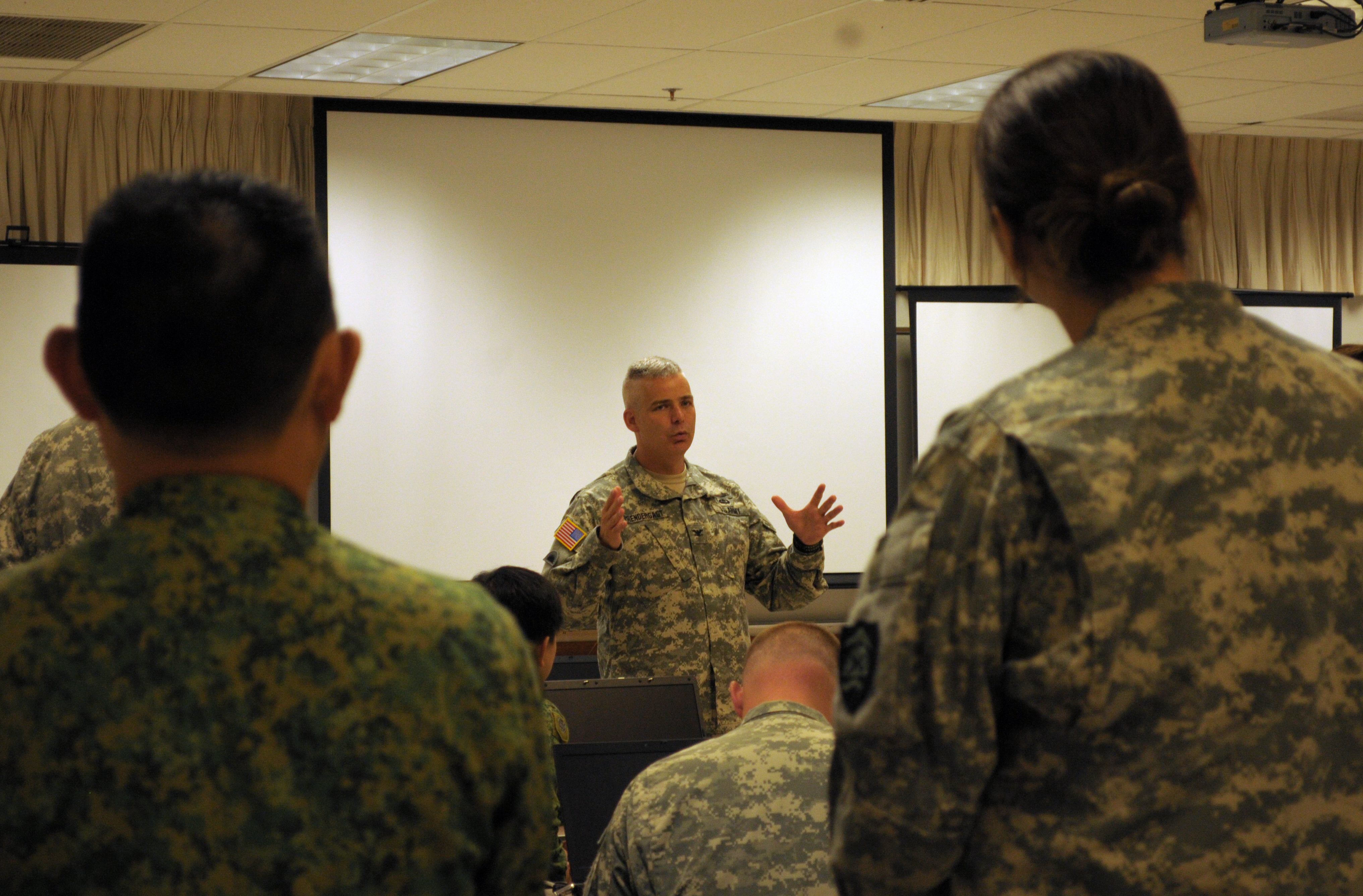 Col. William J. Prendergast, commander of the 82 Rear Operations Center, Clackamas, Ore., addresses the service members of the higher control command center during the annual bilateral training exercise known as Tiger Balm at Bellows Air Force Station Regional Training Institute in Waimanalo, Hawaii, July 9. (Photo by Spc. Erin J. Quirke, 115 Mobile Public Affairs Detachment) Unit: 115th Mobile Public Affairs Detachment DVIDS Tags: ORANG; Hawaii National Guard; USARPAC; Hawaii Army National Guard; Oregon Air National Guard; Oregon Army National Guard; Tiger Balm; Singapore Armed Forces; Bellows Air Force Station; U.S. Army National Guard; Washington Army national Guard; HIARNG; U.S. Air National Guard; build relationships; United States Army Reserve-Pacific; WAARNG; Sgt. Anita VanderMolen; Tiger Balm 2012; Sgt. Jason van Mourik; Spc. Erin Quirke